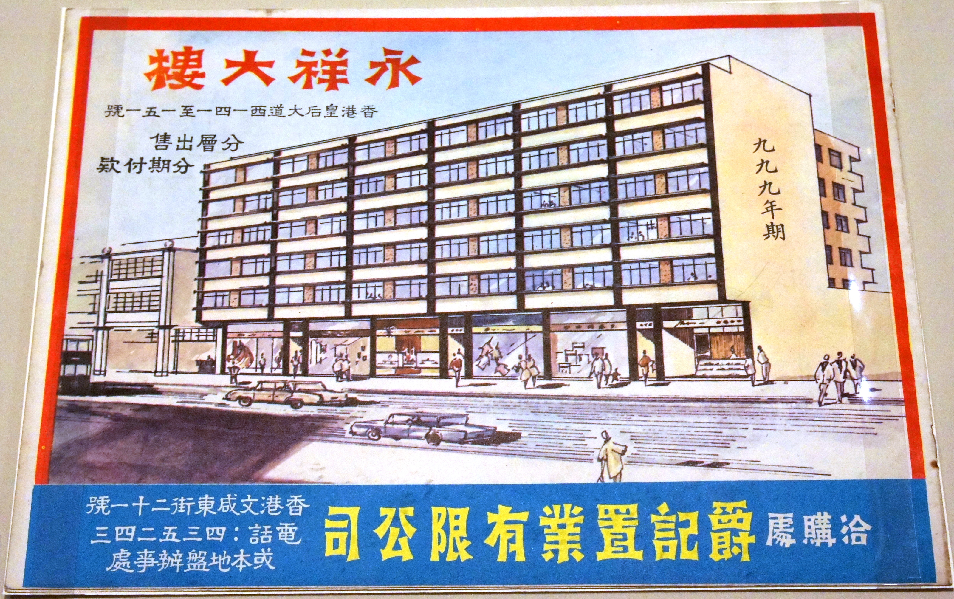 A copy of the sales brochure of Wing Cheung Building, Hong Kong (1960s-1970s). An exhibit of the Hong Kong Museum of History.